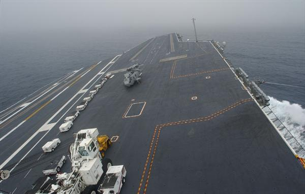 USS John C. Stennis (CVN-74) doing a high speed turn during shakedown trial runs